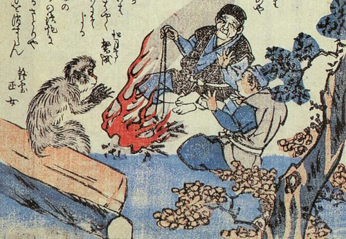 Satori from Kyōka Hyaku Monogatari